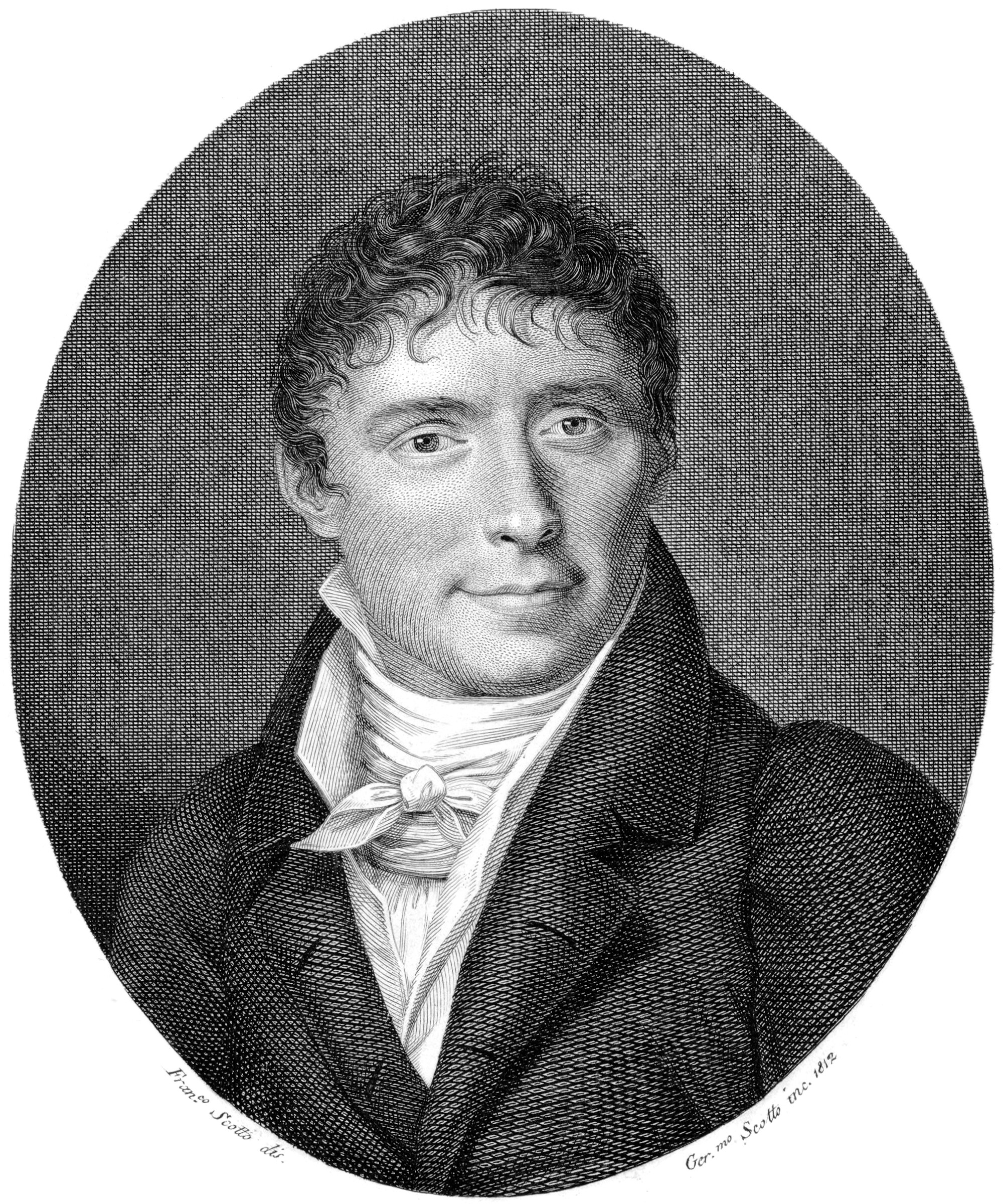 Italian composer, harpsichordist and musicologist Bonifazio Asioli (1769-1832).